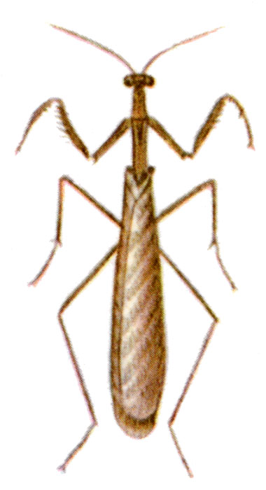 Bactromantis virga